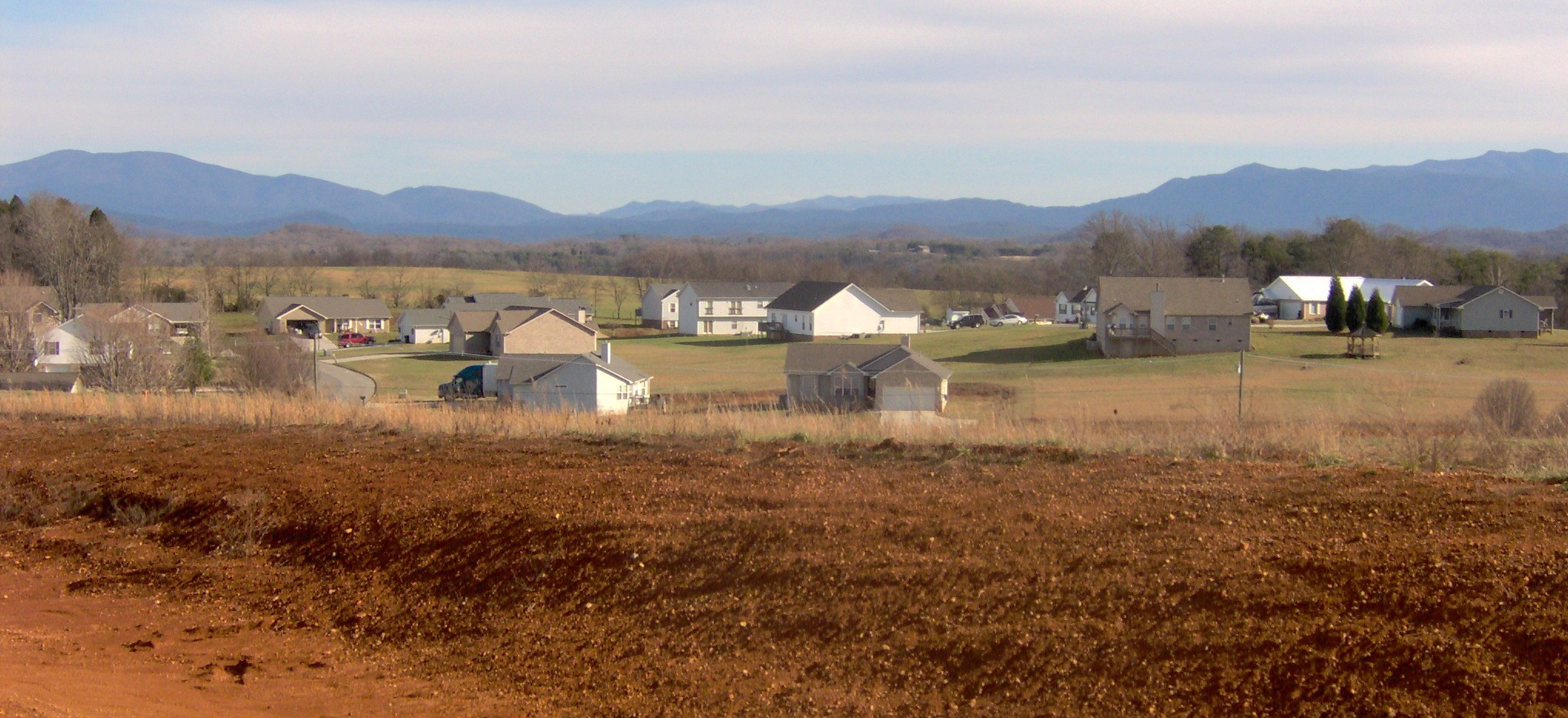 A subdivision in Vonore, Tennessee, USA. The western fringe of the Great Smoky Mountains is visible in the distance on the left, and northern fringe of the Unicoi Mountains is visible on the right. The Little Tennessee River divides the two ranges.